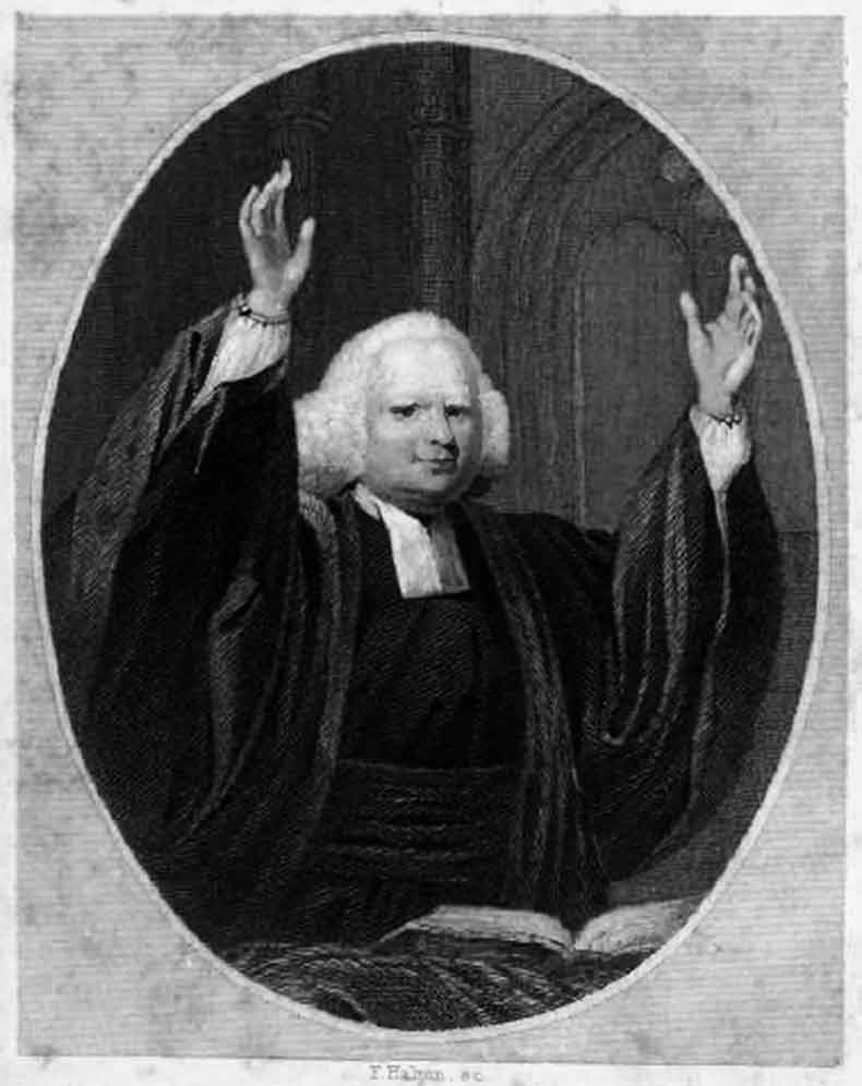 From:George Whitefield: a biography